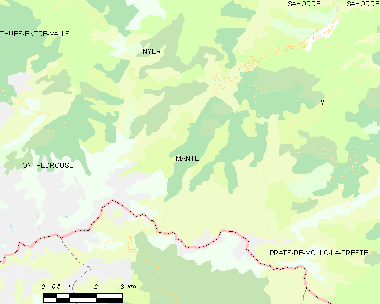 Map of French municipality